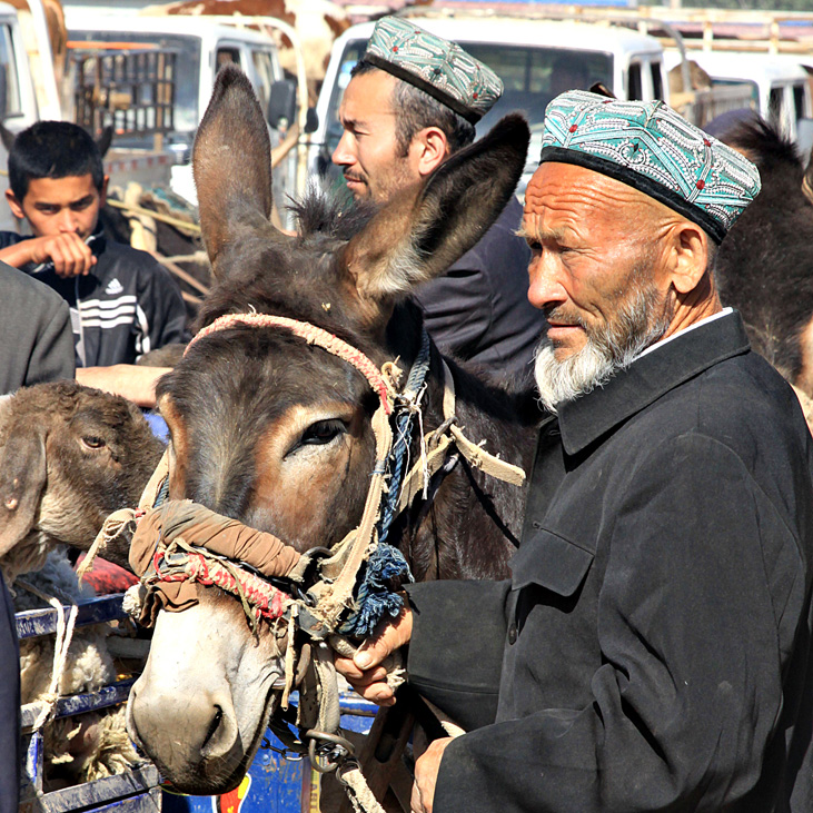 Uighur Farmer at Kashgar Livestock Market.